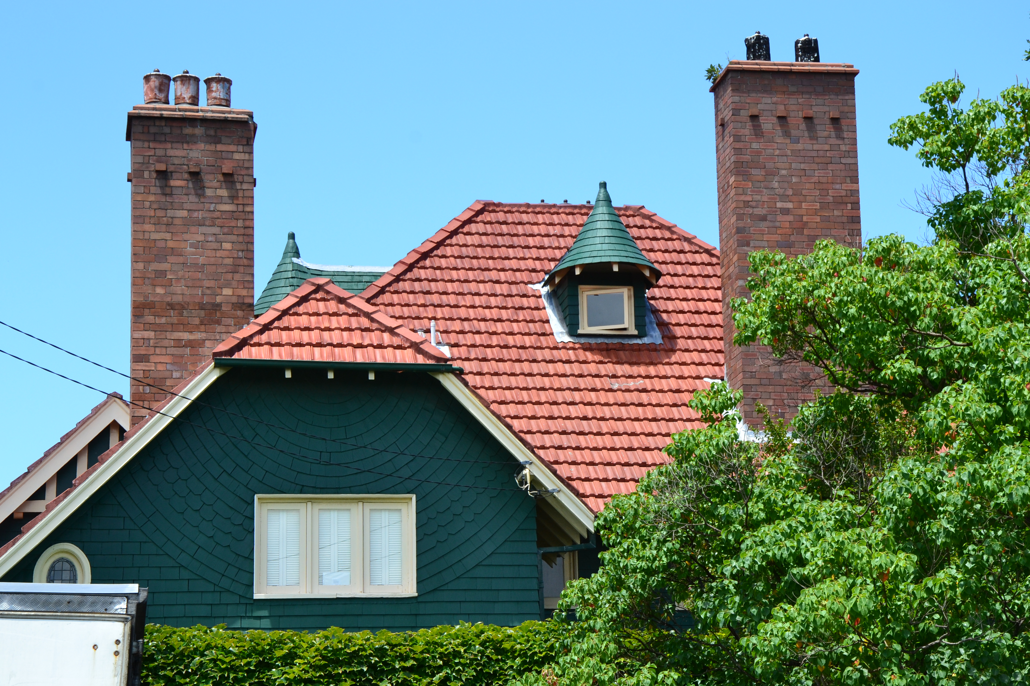 Hollowforth, Neutral Bay, Sydney